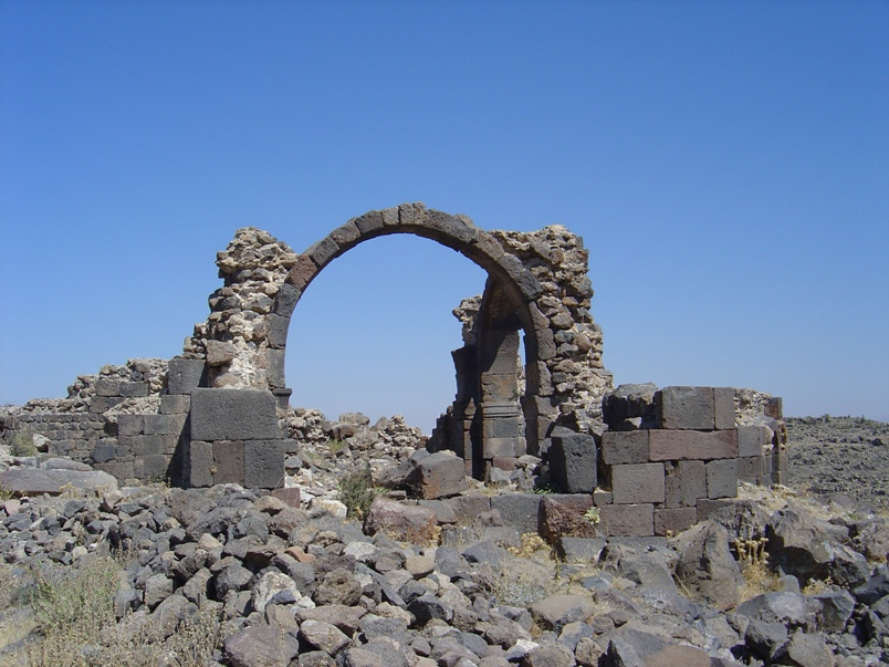 Mokisos (Viranşehir), ruin of the so-called Kemerli Kilise, a cruciform domed church